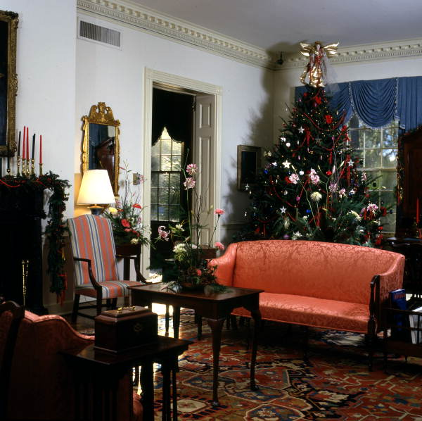 Local call number: DC05245J Title: State reception room at the Governor's Mansion in Tallahassee Date: ca. 1990 Physical descrip: 1 transparency - col. - 2 x 2 in. Series Title: Department of Commerce Collection Repository: State Library and Archives of Florida, 500 S. Bronough St., Tallahassee, FL 32399-0250 USA. Contact: 850.245.6700. Persistent URL